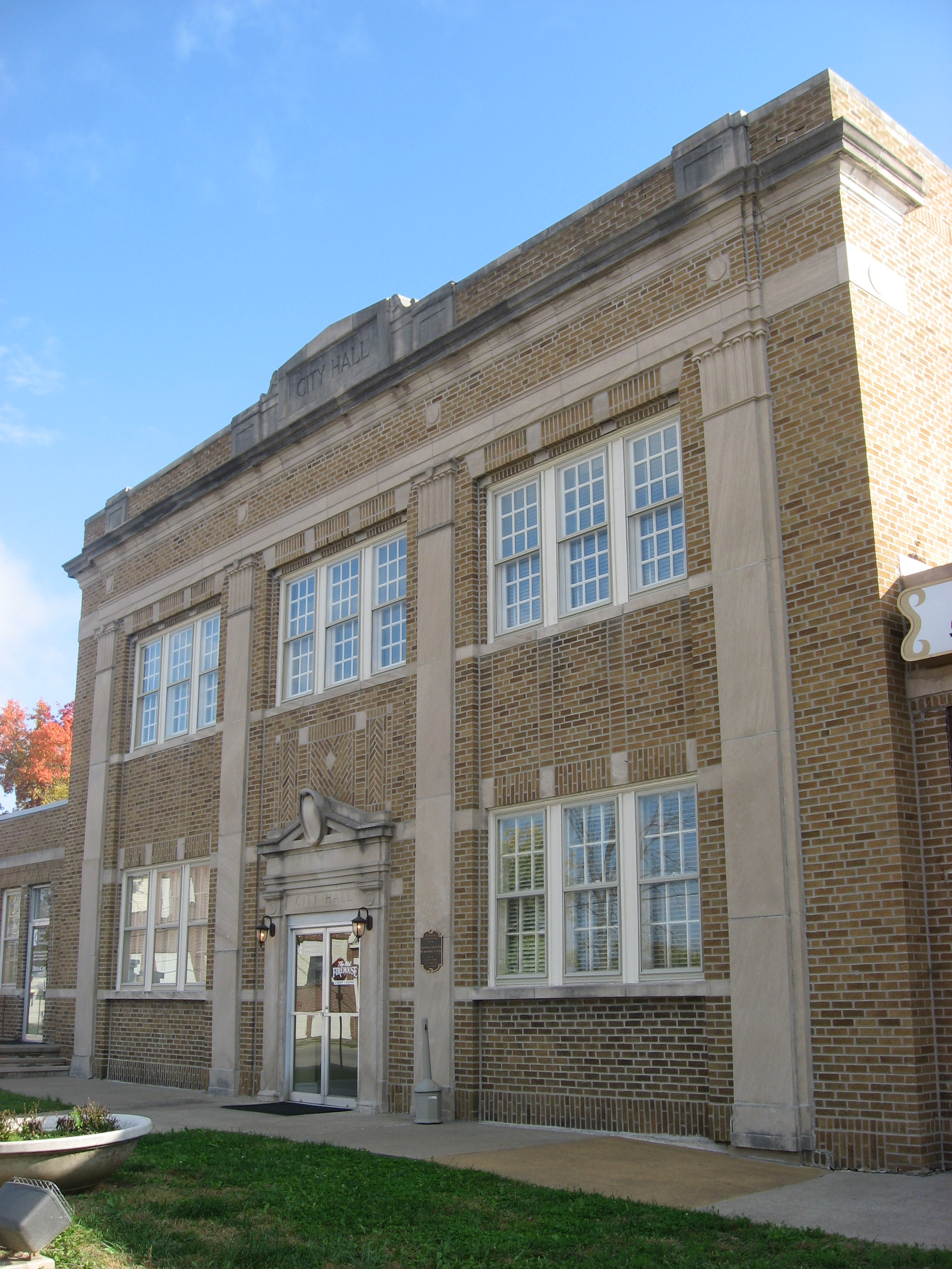 Front of the former West Frankfort City Hall (now a community center), located at 108 N. Emma Street in West Frankfort, Illinois, United States. Built in 1921, it is listed on the National Register of Historic Places.